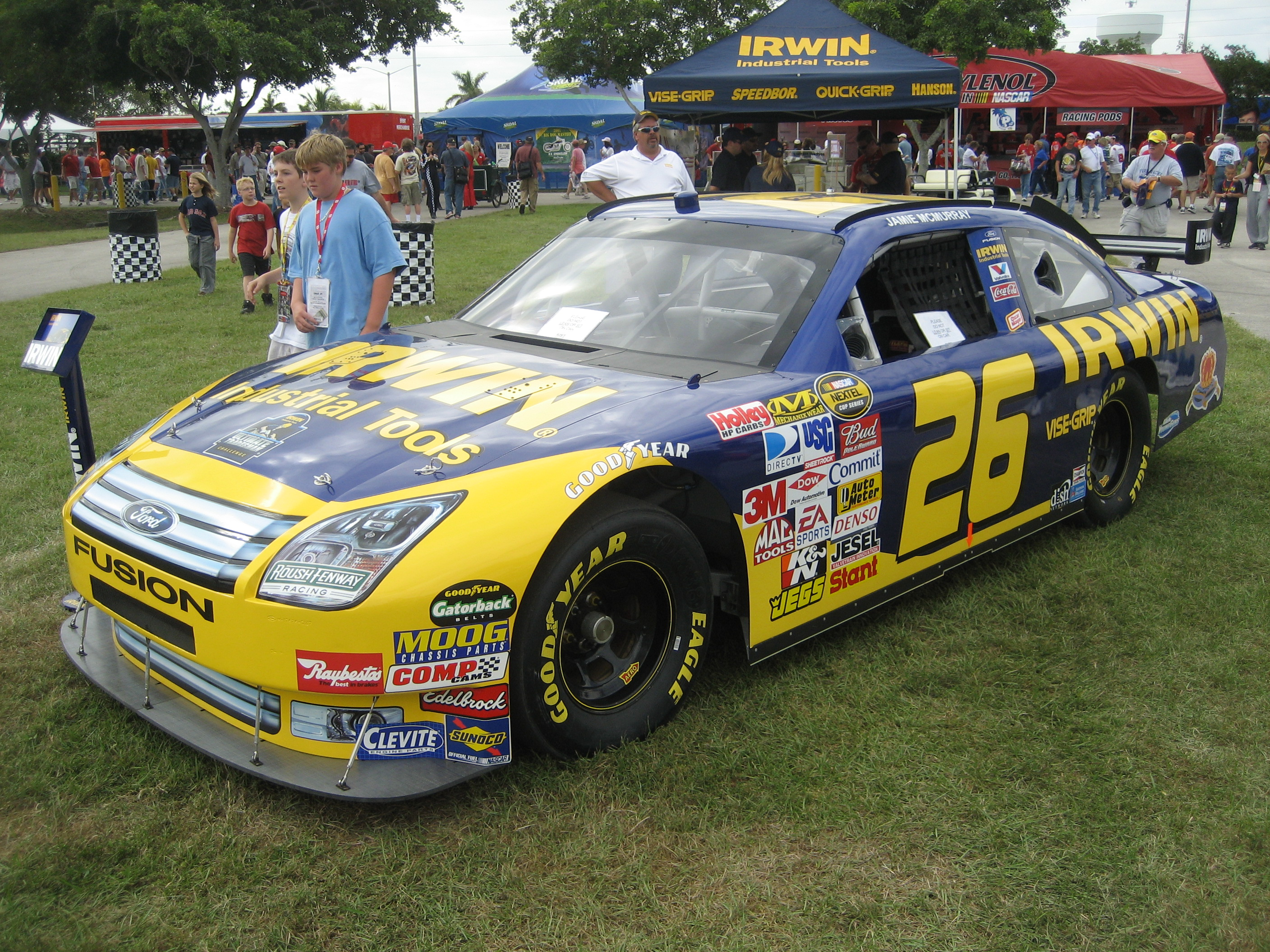 Jaime McMurray's car at the 2007 Ford Championship Weekend at the Homestead-Miami Speedway.